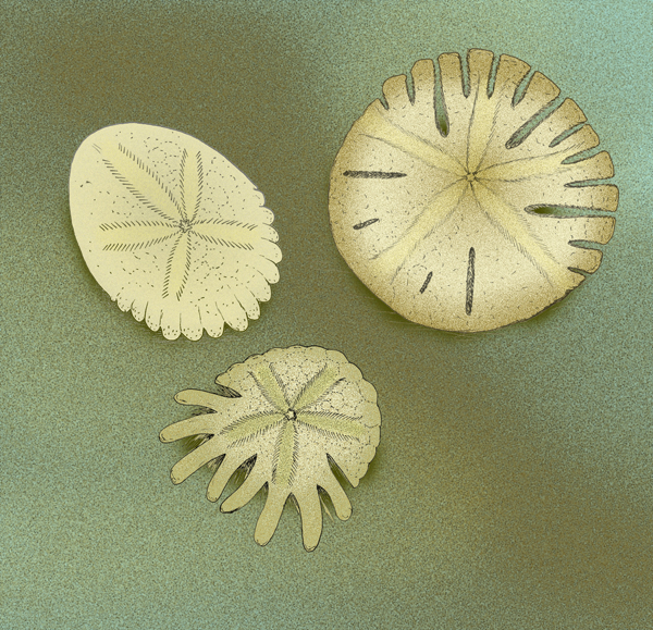 Picture of the three genera of the sand dollar family Rotulidae, from the West African Coast. Clockwise, from the upper left is Heliophora, Rotuloidea, and Rotula.